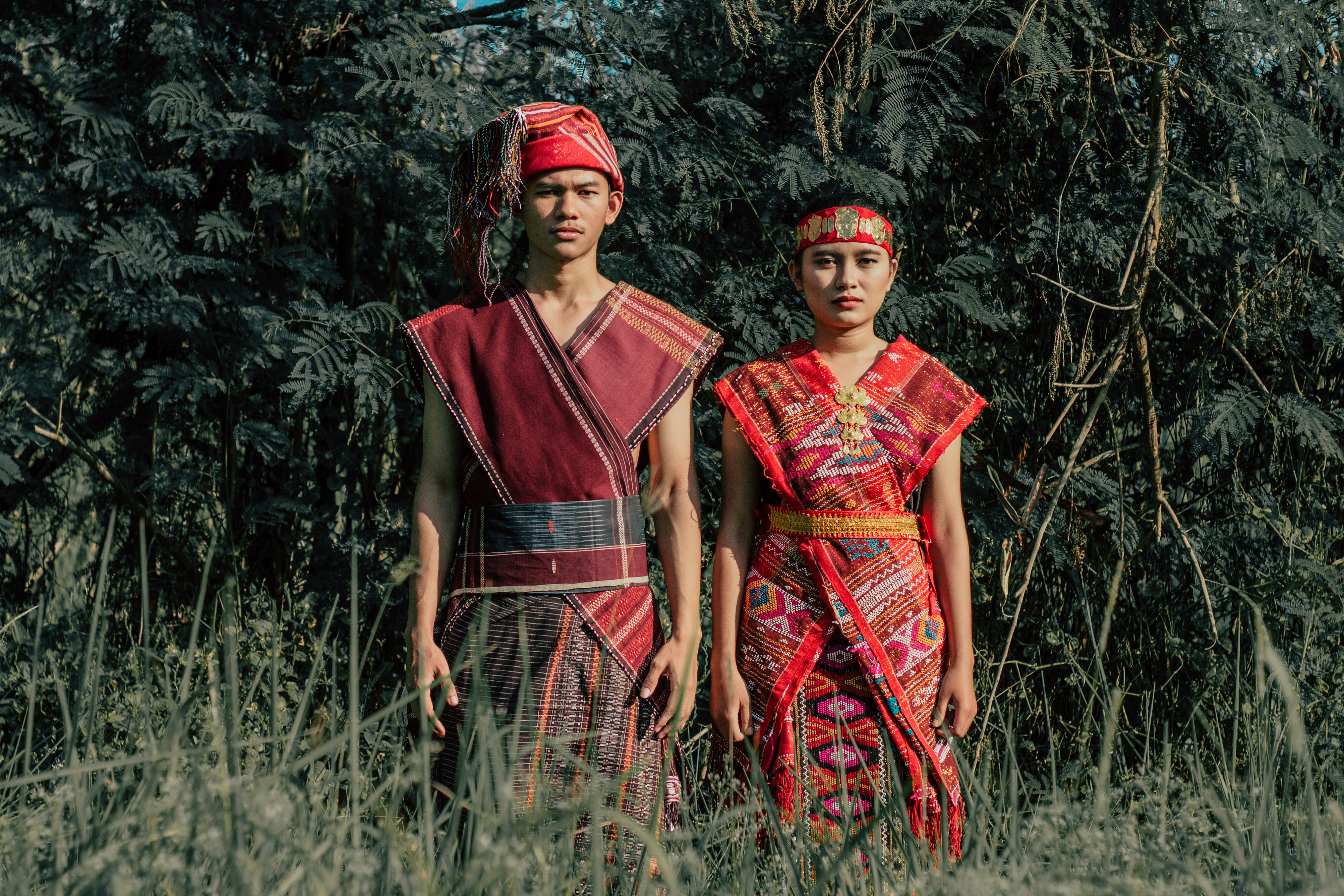 Halak Batak (in Batak language) is Batak people or sons and daughters of the native descendants of Batak. They use Ulos, Batak fabrics, as their clothes. These clothes are usually used during traditional Batak events.